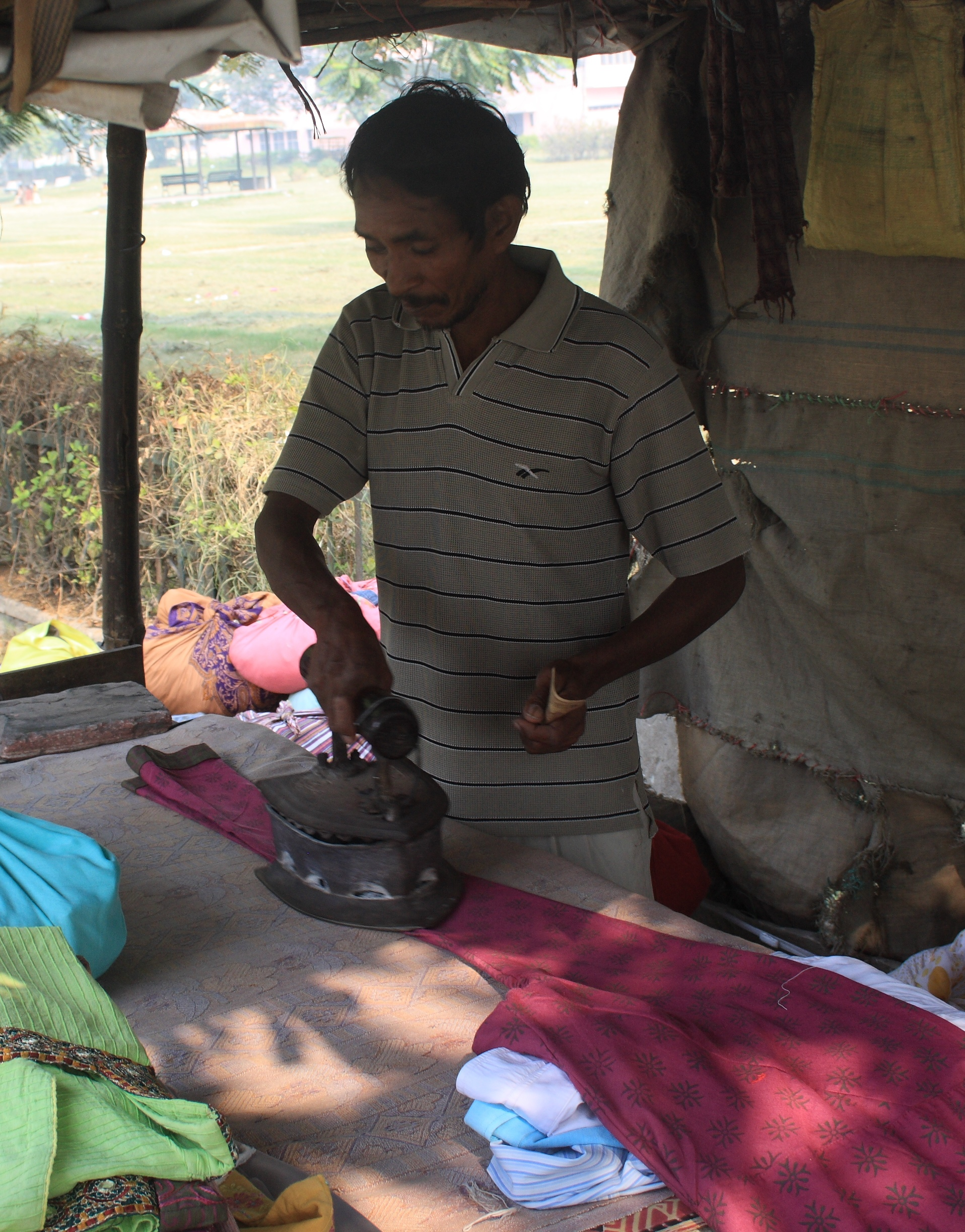 A man ironing clothes in his roadside stand using an iron heated by charcoal. Taken in northern India.